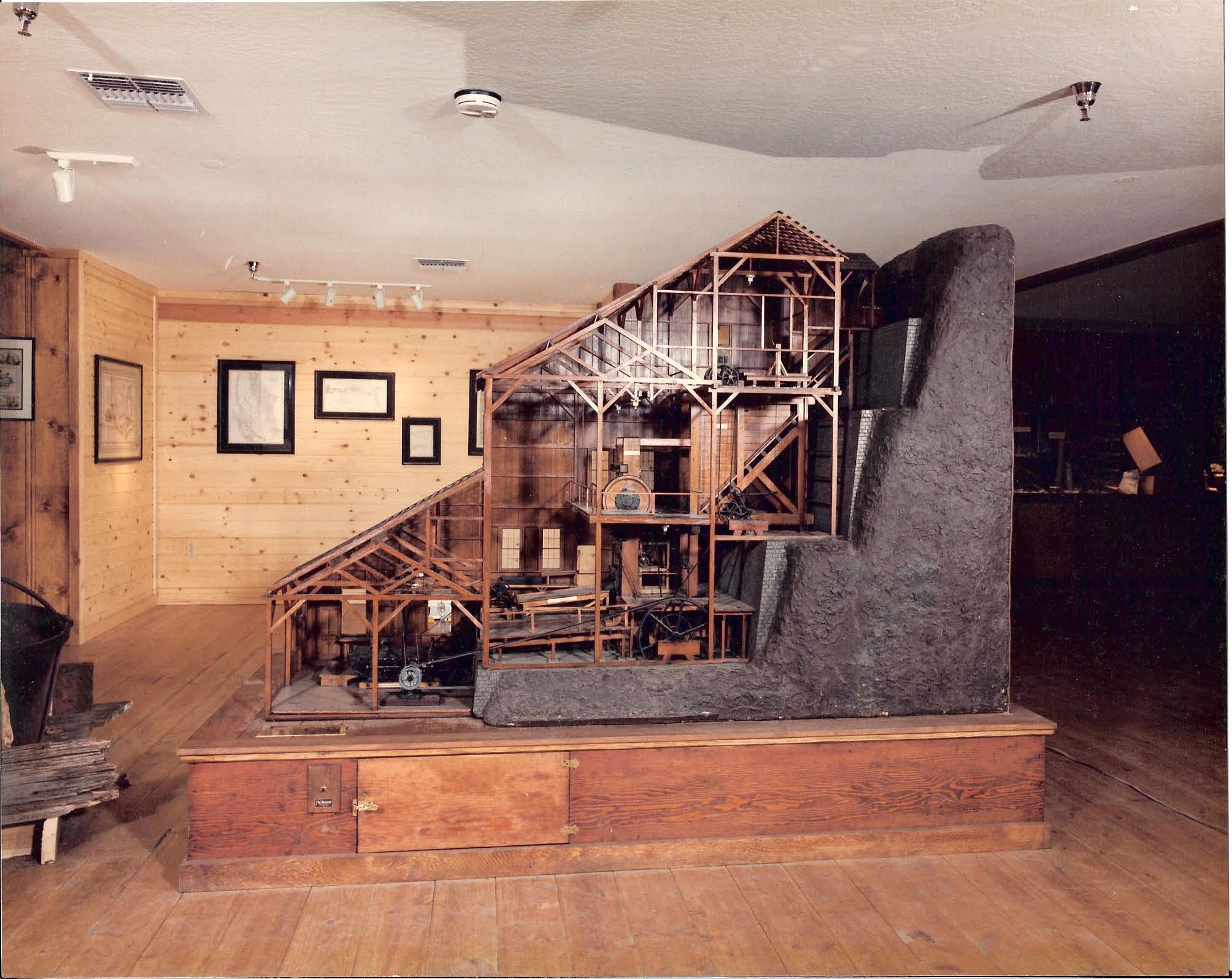 A working scale model of a "gold stamp mill" built by sculptor Sal Maccarone in 1985. The model resides at the, "California State Mining and Mineral Museum" in Mariposa, California. It is scaled from a circa 1895 stamp mill.